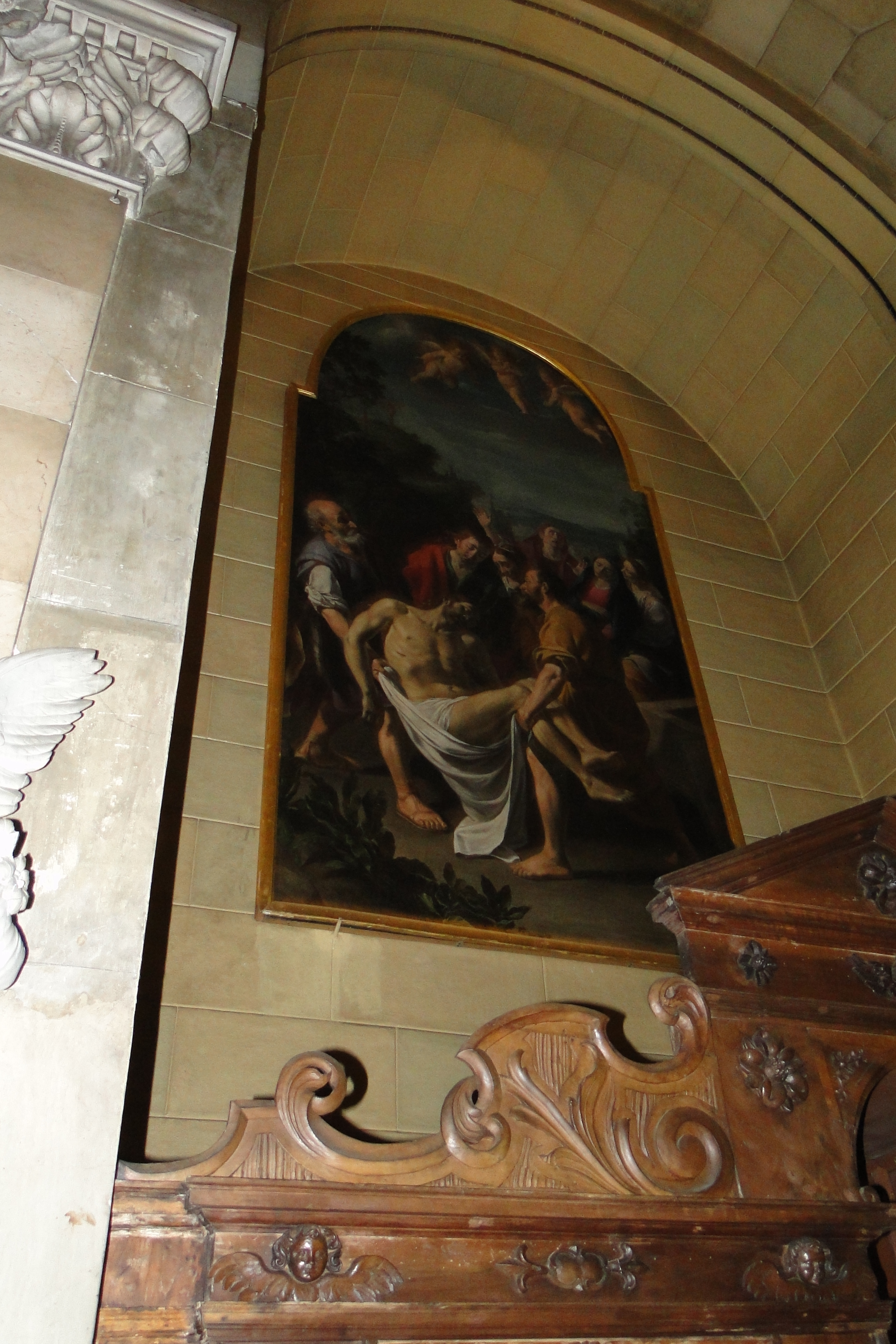 Deposition - G.A. Molineri in the church of St. Dalmatius in Turin (Italy)